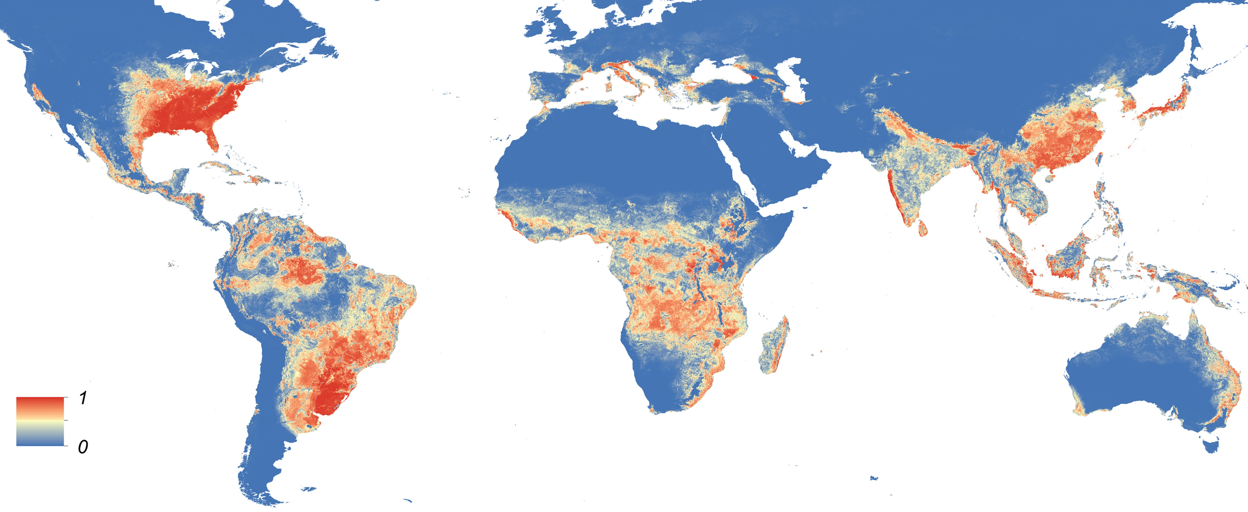 Global map of the predicted distribution of Ae. albopictus in 2015. The map depicts the probability of occurrence (from 0 blue to 1 red) at a spatial resolution of 5 km × 5 km.